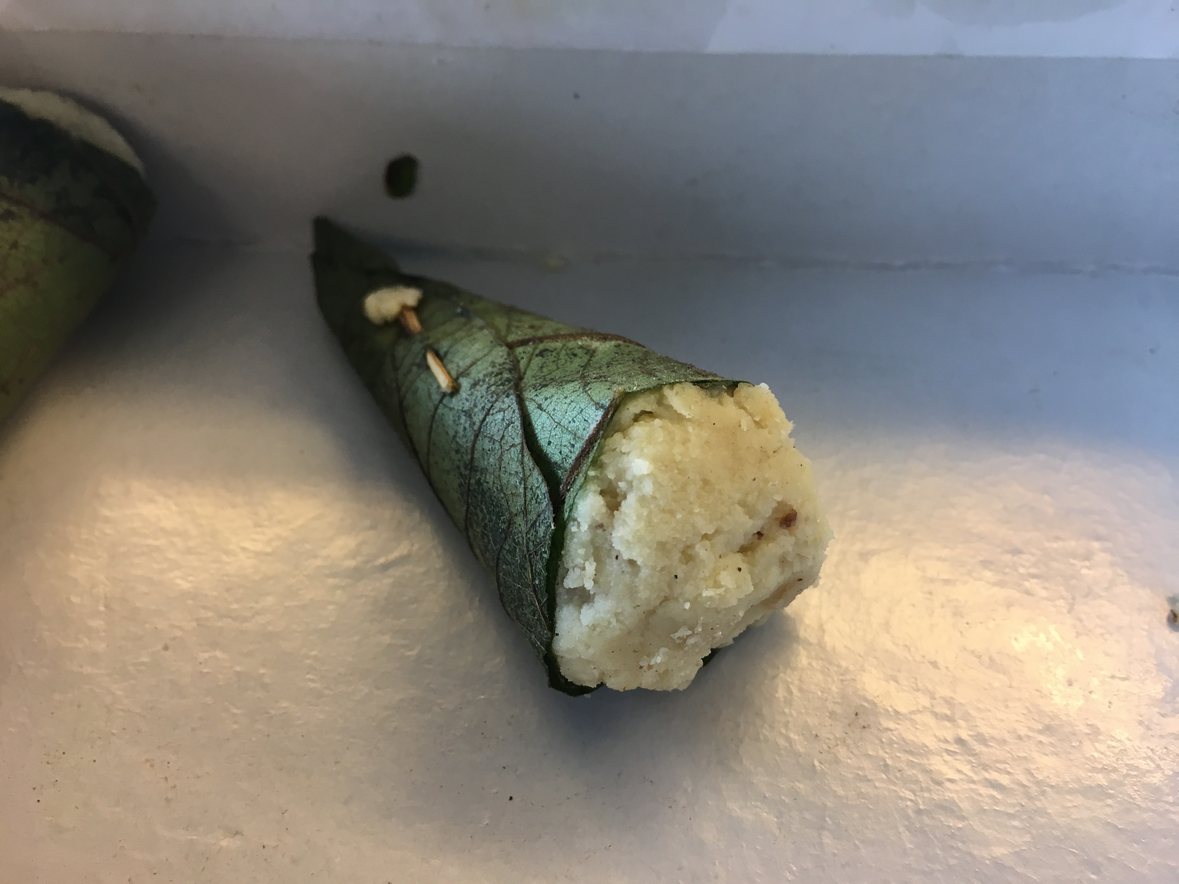 sweets of india. SIngori from UttaraKhand